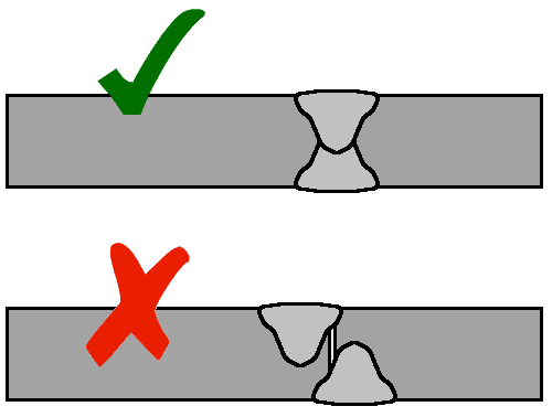 incomplete penetration in welding